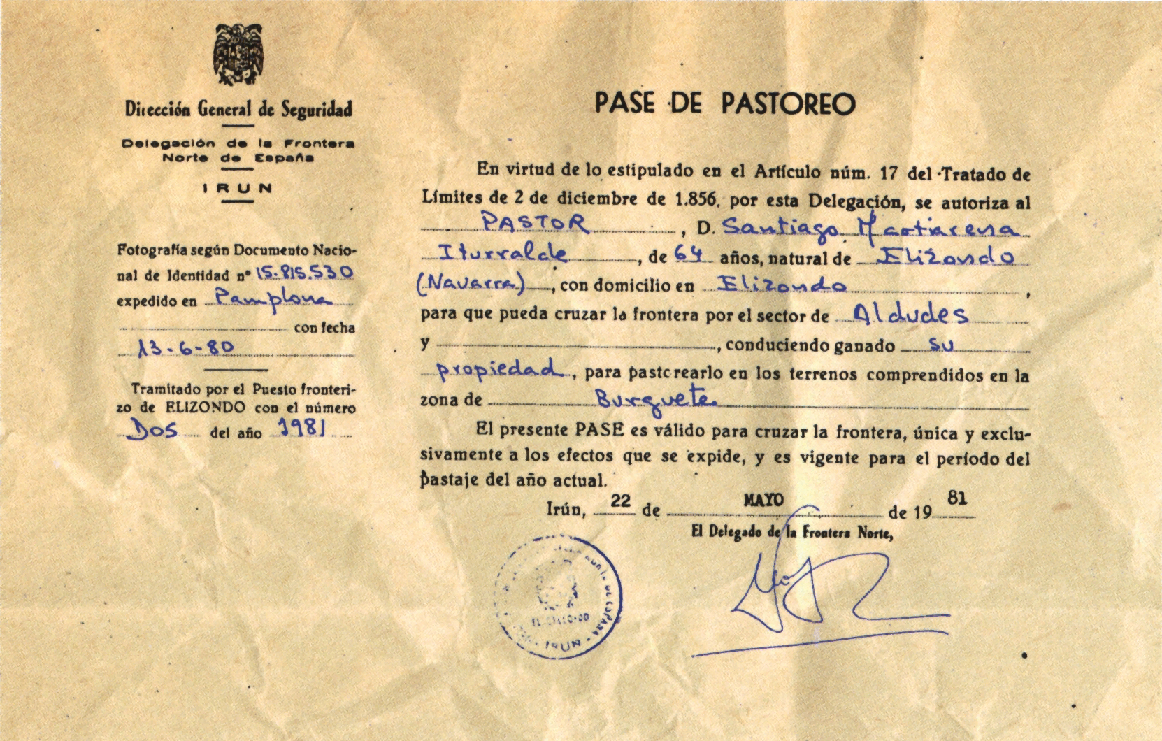 Border pass for Spanish farmers to access their fields on the Frenchs side. As agreed in the Bayonne treaties 1856 and 1862. This type issued 1981.